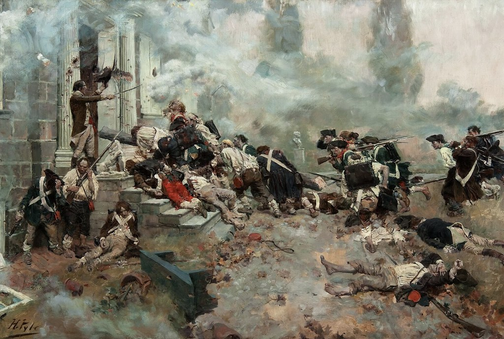 "The Attack Upon the Chew House" by Howard Pyle. Appeared in Scribner's June 1898 issue.